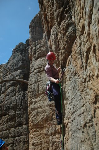 A leader clipping the rope to some protection